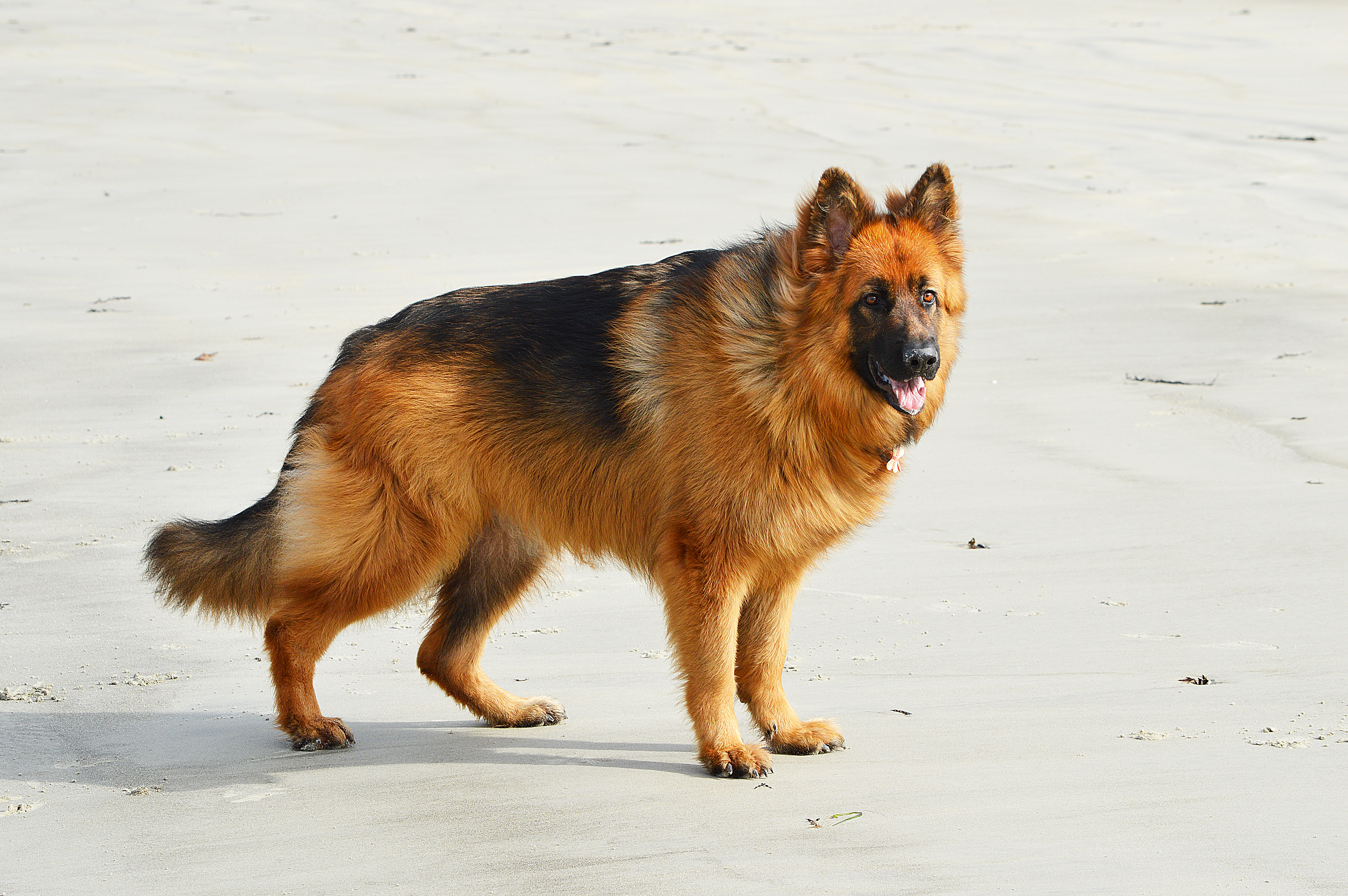 long-haired German shepherd dog - sometimes known as Alsatian